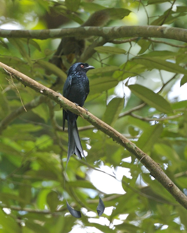 Greater Racket-tailed Drongo Dicrurus paradiseus Dicrurus paradiseus platurus 9th. September 2007 Bukit Brown, Singapore Malay: Cecawi Anting-Anting, Checawi Thai: นกแซงแซวหางบ่วงใหญ่ Indonesian: Saeran bandera batu Squirrel in the background came into the foreground and displaced the bird shortly after the photo was taken. _Q0S9929